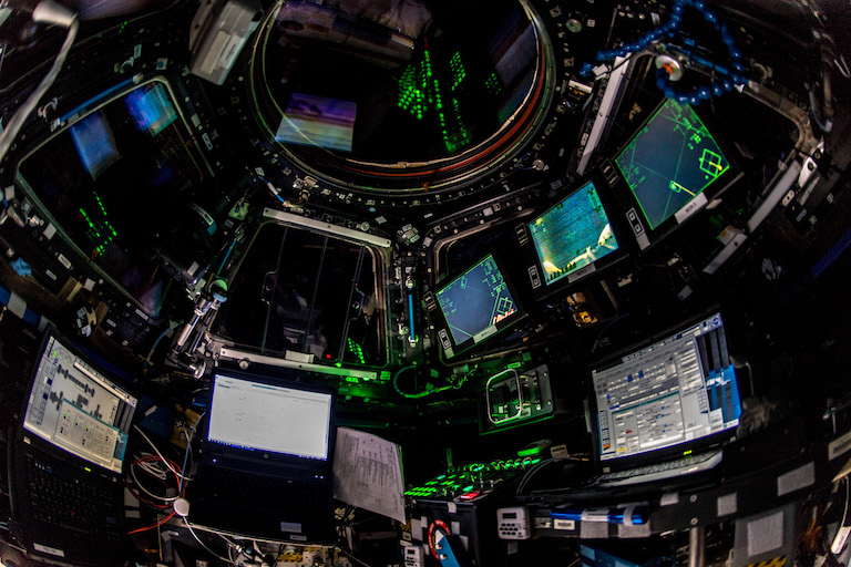 This will be our office today. Waiting to catch a Dragon together with Serena and Anne. ID: 384G9061 Credit: ESA/A.Gerst